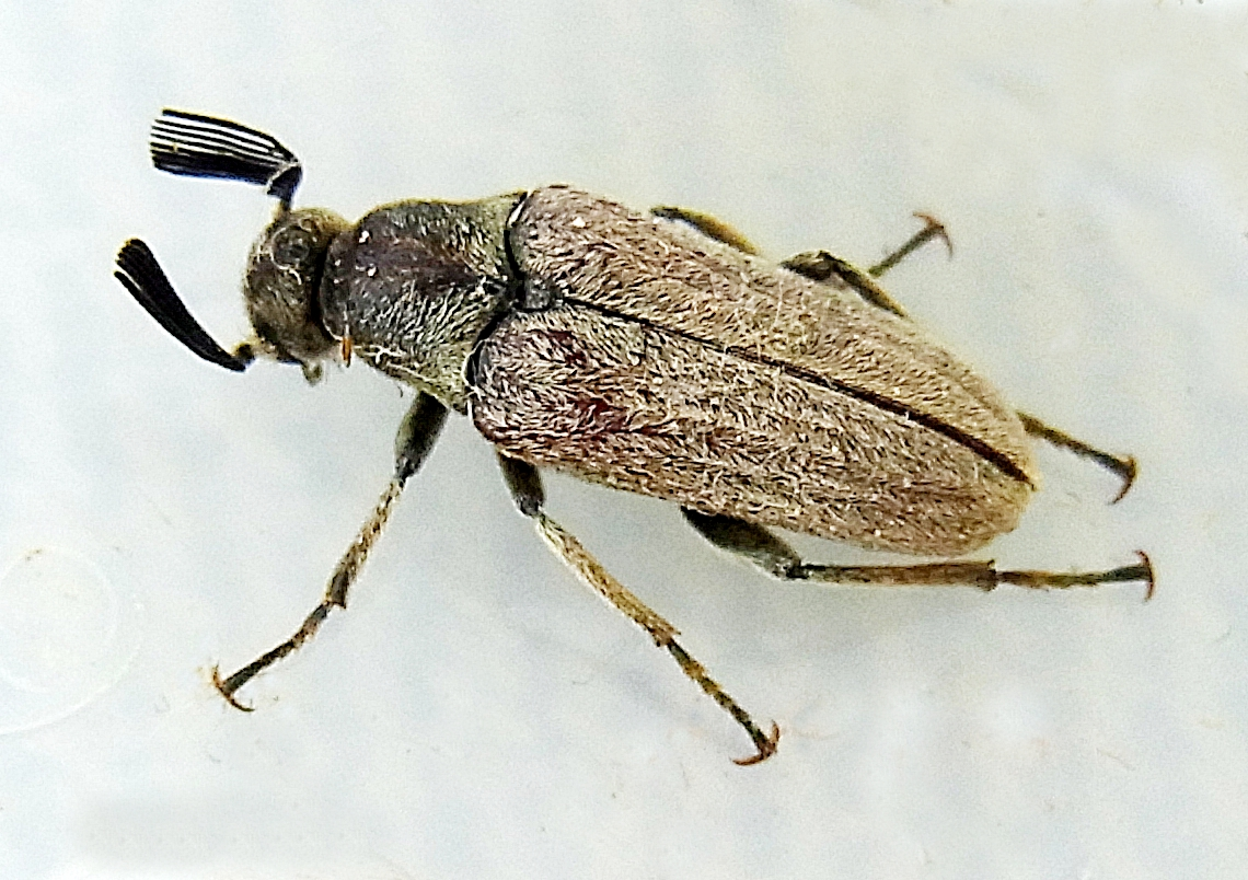 Ptilophorus dufouri from Northern Spain, north of Lleida at 2011-05-10